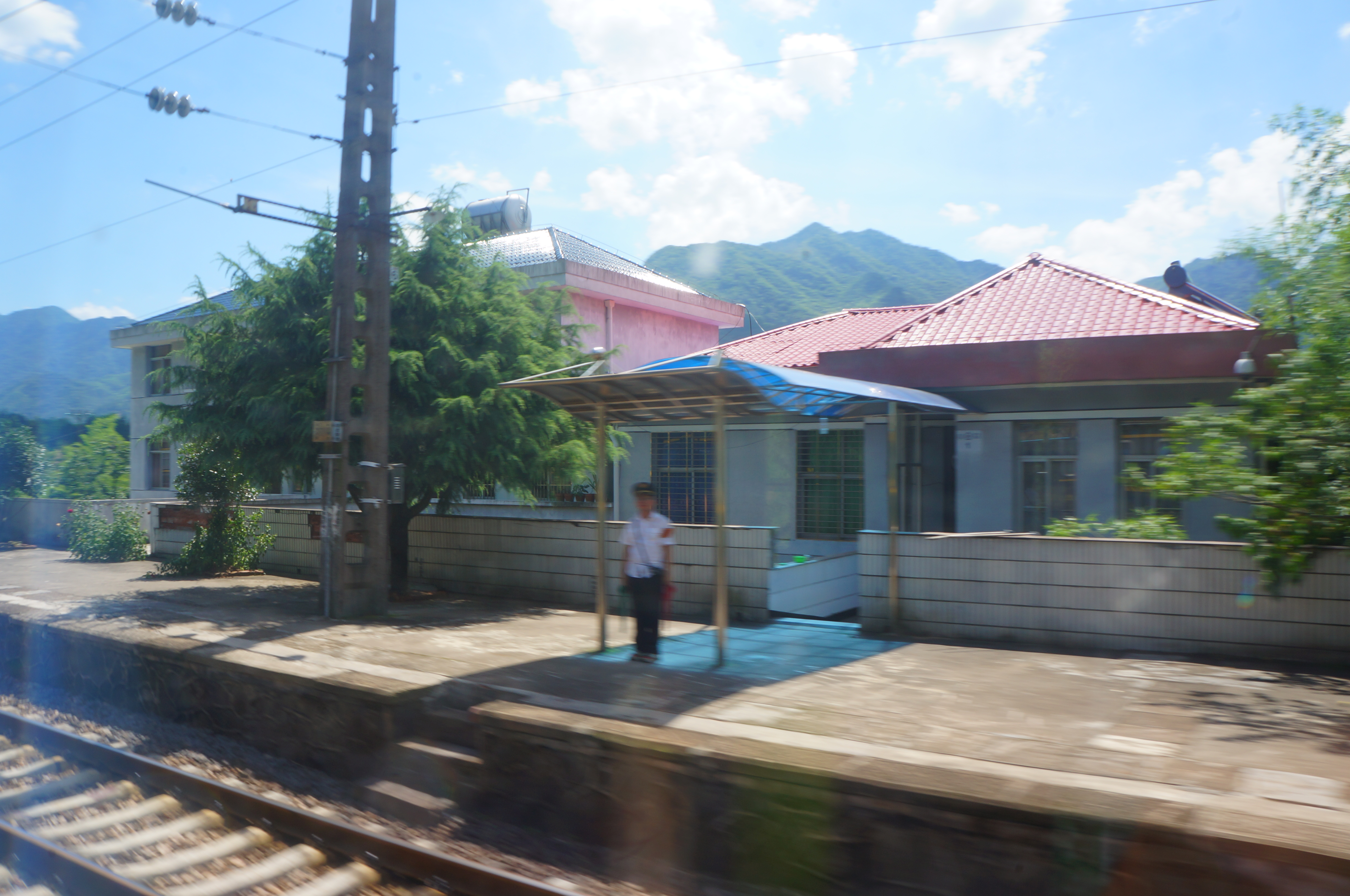 201806 Station Building of Yuandai Station